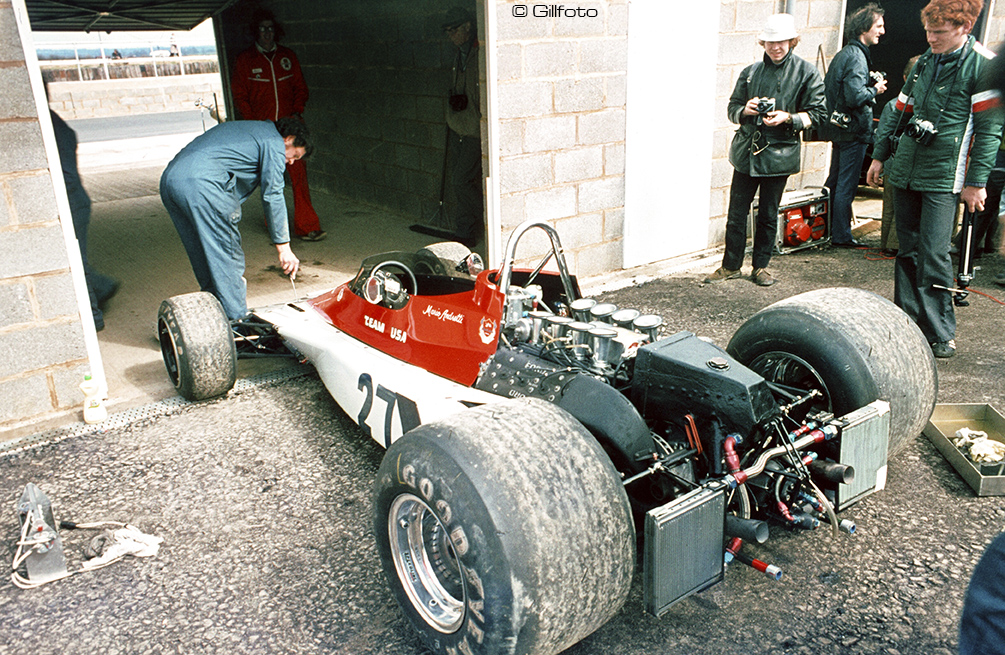 Mario Andretti (USA) Parnelli VPJ-4 Ford Cosworth. 27th Daily Express International Trophy Silverstone Circuit (United Kingdom), 1975